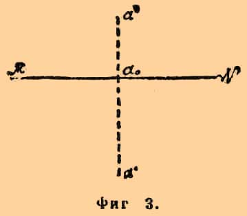 Illustration from Brockhaus and Efron Encyclopedic Dictionary (1890—1907)